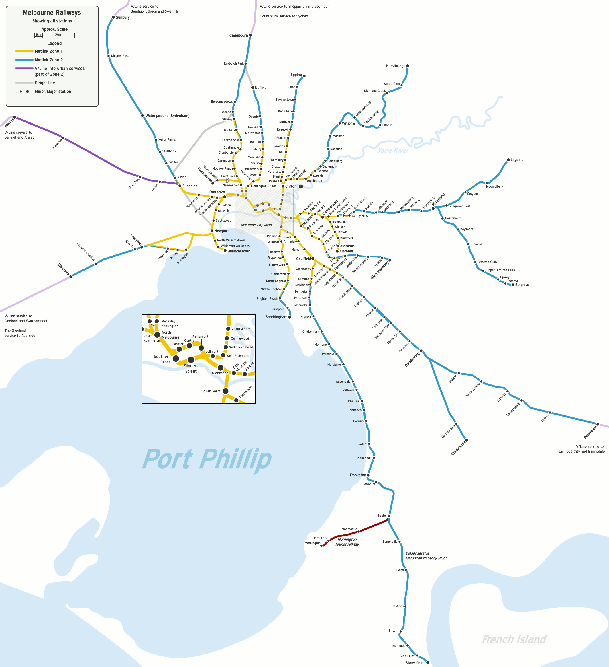 Map of Melbourne's railway network, geographically accurate, to approximate scale. Shows all stations.